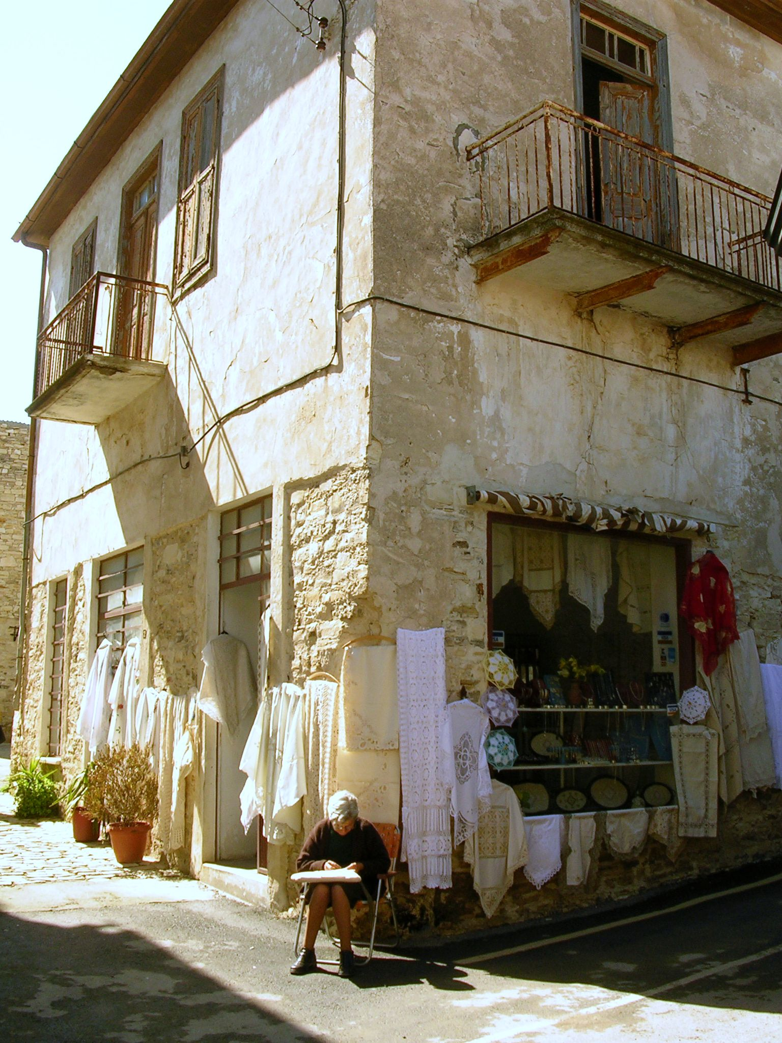 A woman embroidering outside an embroidery shop in Lefkara, Cyprus.